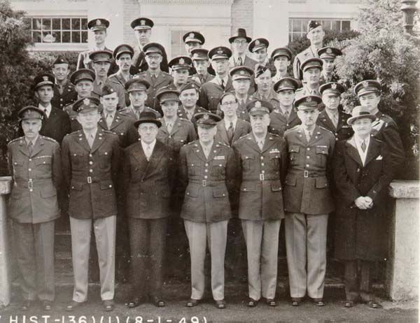 "U.S. and British officers at the signing of the top secret British-United States Communications Intelligence Agreement, 5 March 1946, Washington, D.C." [1]